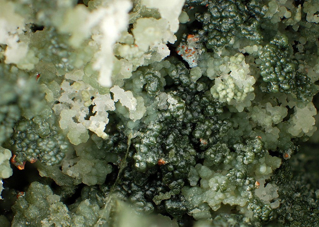 Chamosite, Saponite, Copper Locality: Central Mine, Central, Keweenaw County, Michigan, USA Original description: Clusters of dark-green chamosite balls with light-green saponite balls and copper crystals, lining a basalt vesicle from which a calcite cover was removed. Field of view is 8.3 mm. recording data: Lens: Mitutoyo M Plan Apo 2 0.055 F-stop: N/A Mounting: Normal, with tube lens FOV: 8.3 mm Lighting: Dual fiber, partially diffused Processing: CombineZP pyramid-do-stack retouched with pyramid-max-contrast